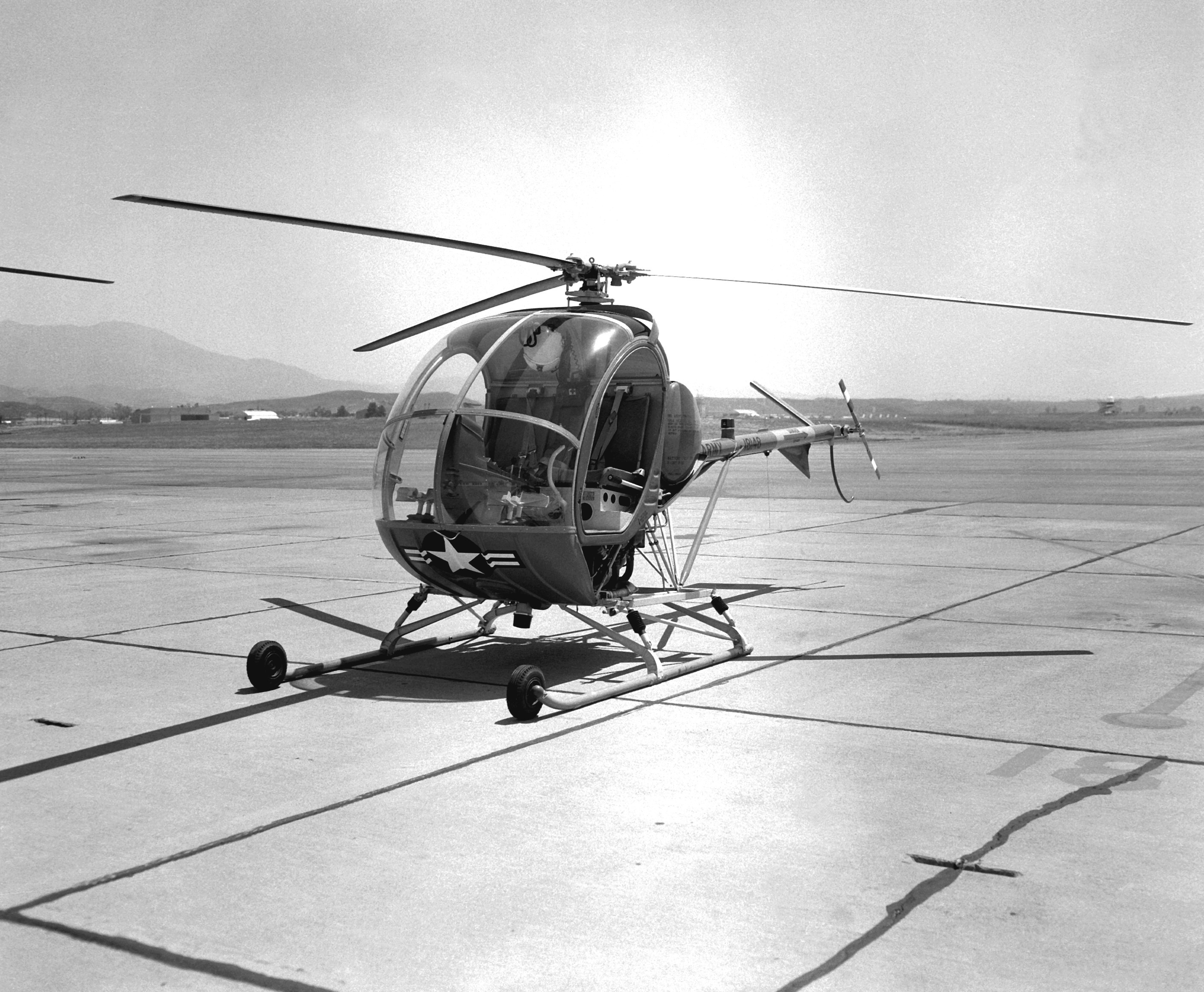 A U.S. Army Hughes TH-55A Osage helicopter (s/n 64-18148) parked on the flight line at the U.S. Marine Corps Air Station El Toro, California (USA).